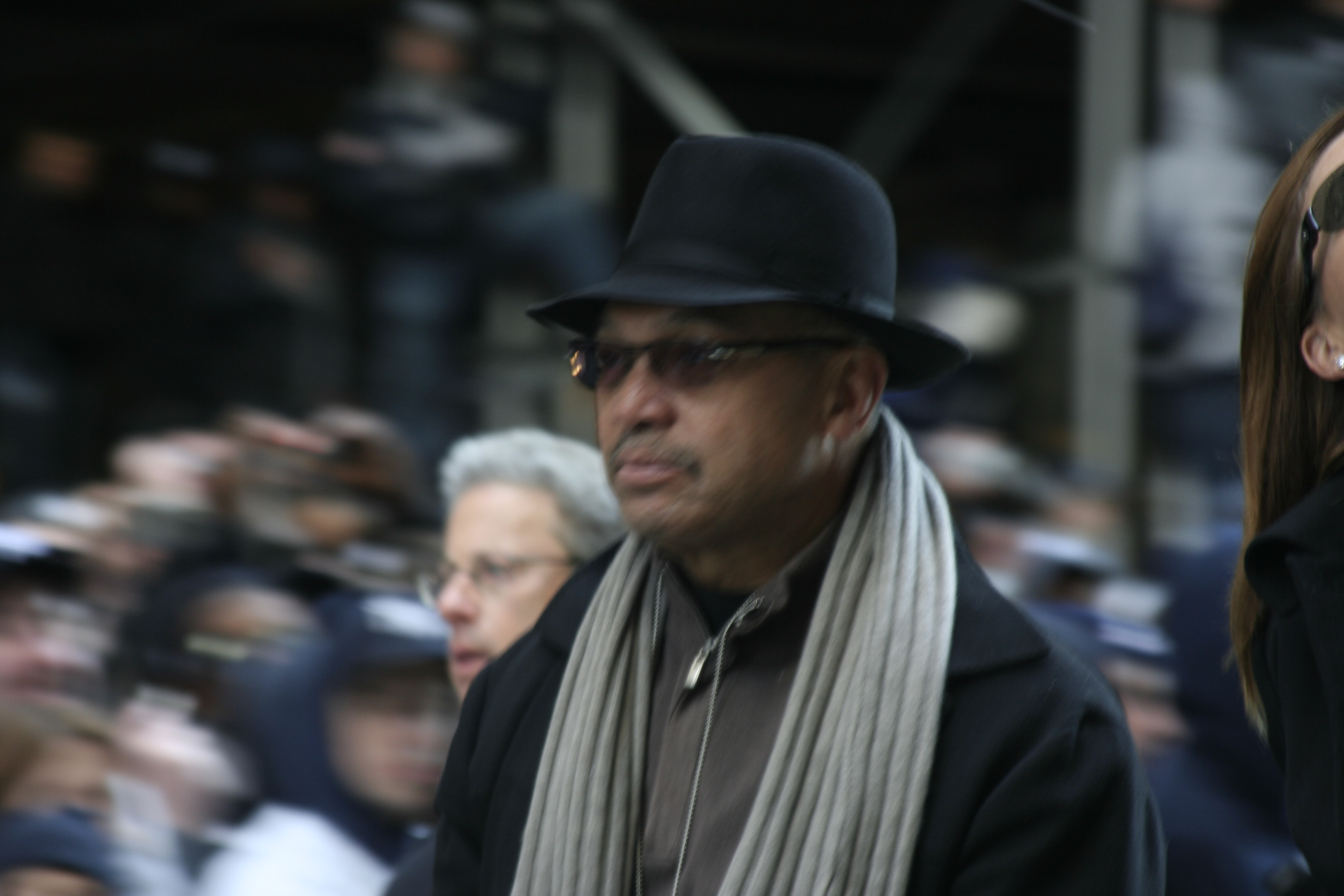 Reggie Jackson